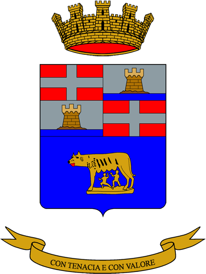 Coat of Arms of the 44° Signal Support Regiment; Italian Army.